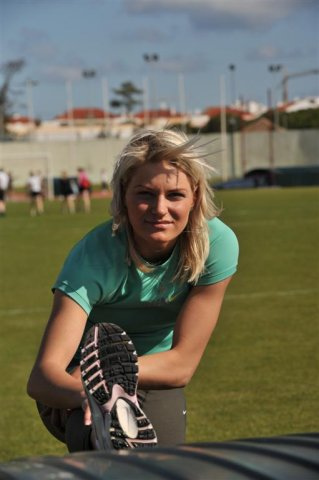 Svetlana Bolshakova Stretching